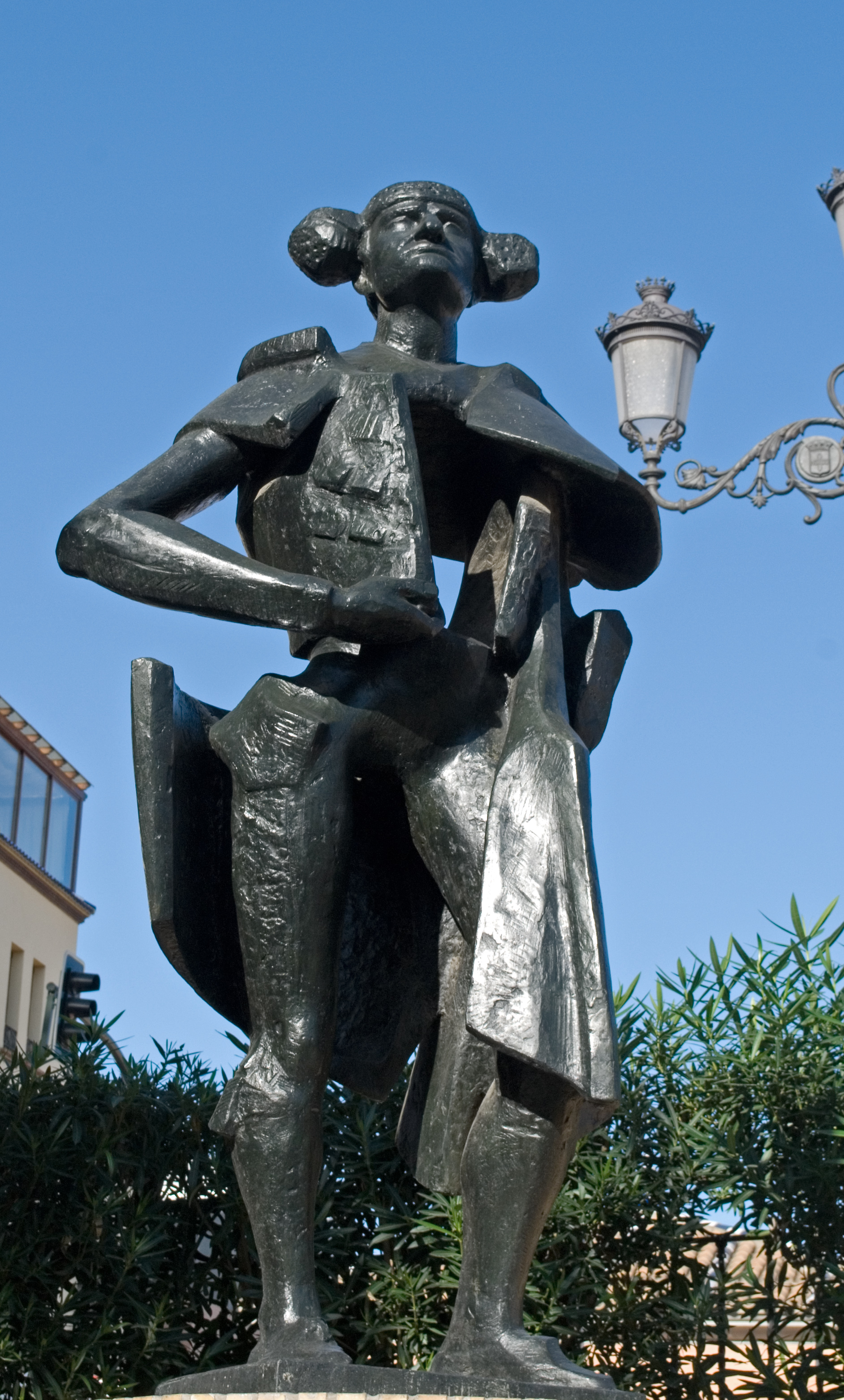 Statue of spanish bullfighter, Juan Belmonte in front of the Bridge of Triana in Seville Statue of Juan Belmonte